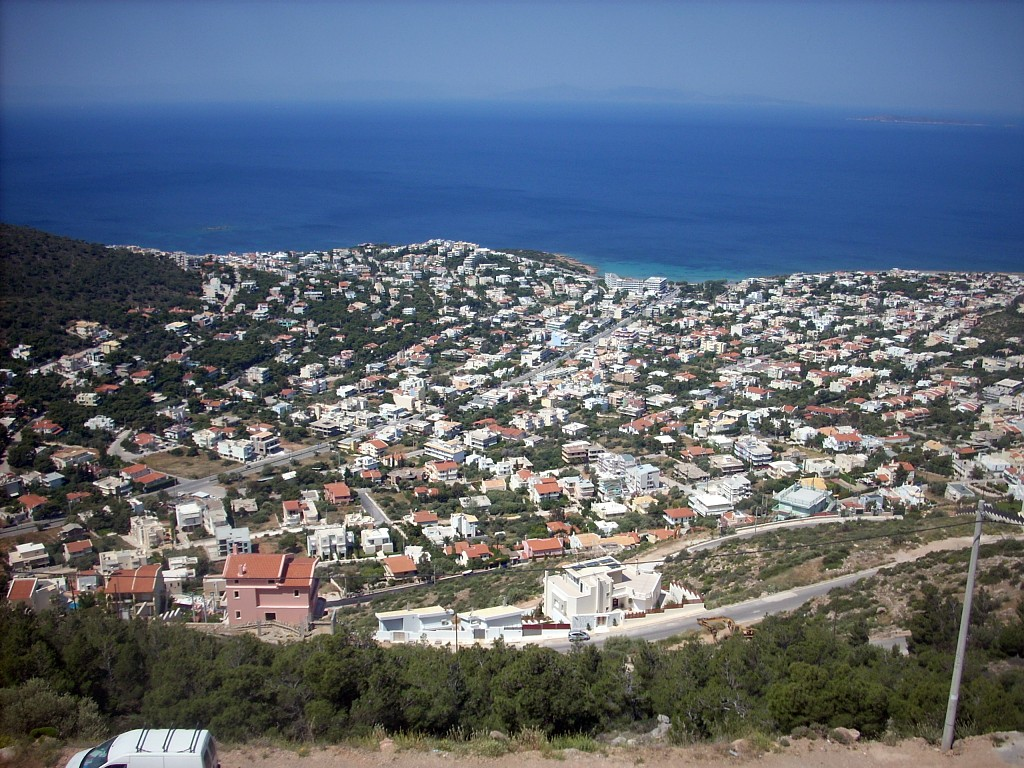 View on village Saronida in Greece